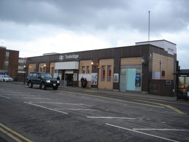 Main building at Tonbridge railway station. Photographed on 29 September 2007.